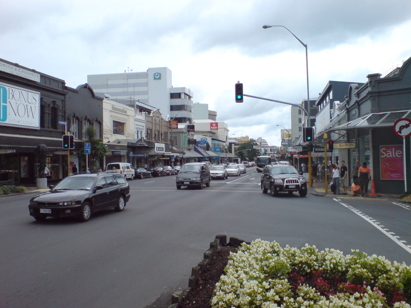 Looking north along Broadway in Newmarket, a commercial centre / regional centre suburb of Auckland City, New Zealand.